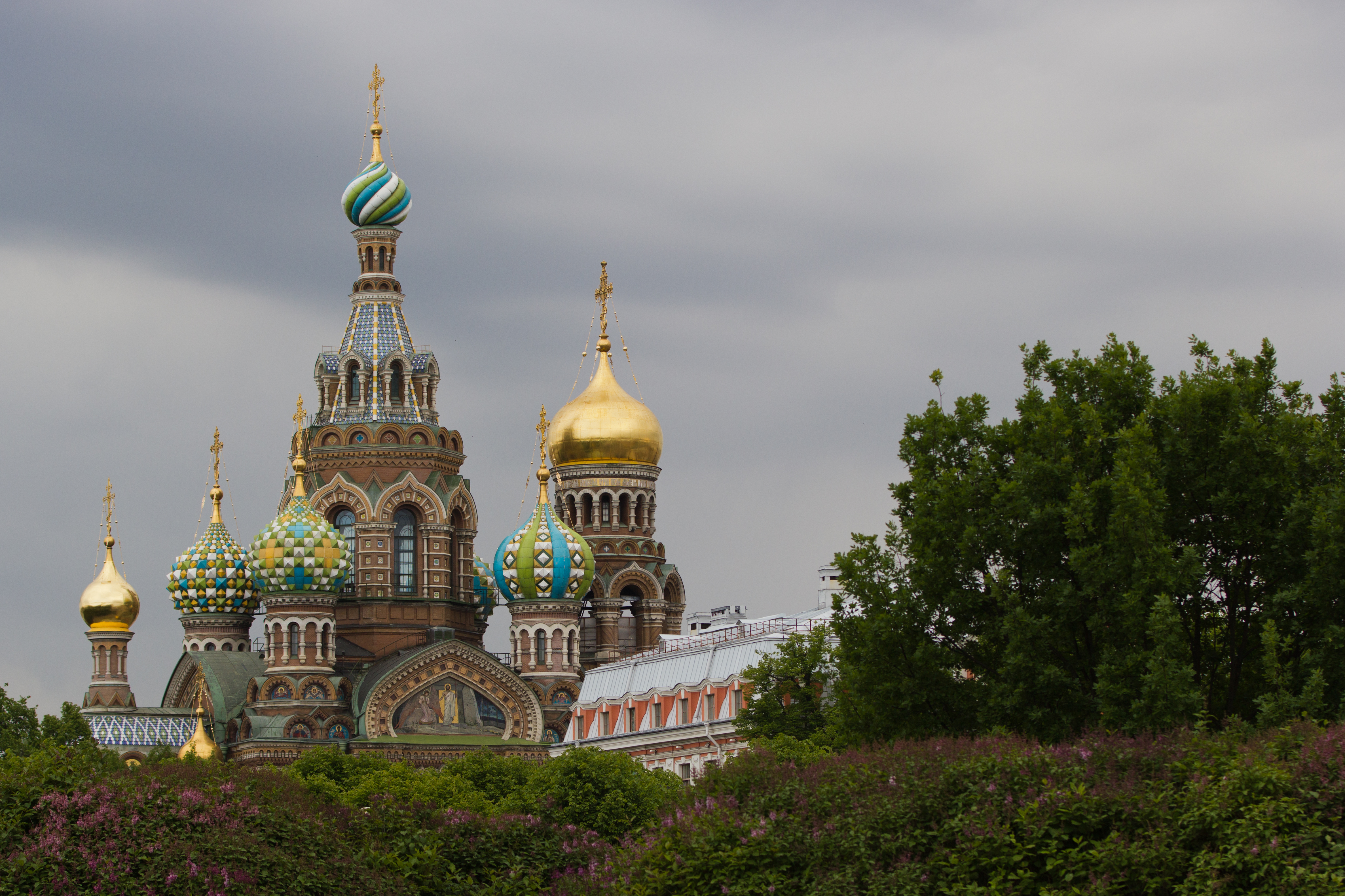 St.Petersburg Russia Church Park